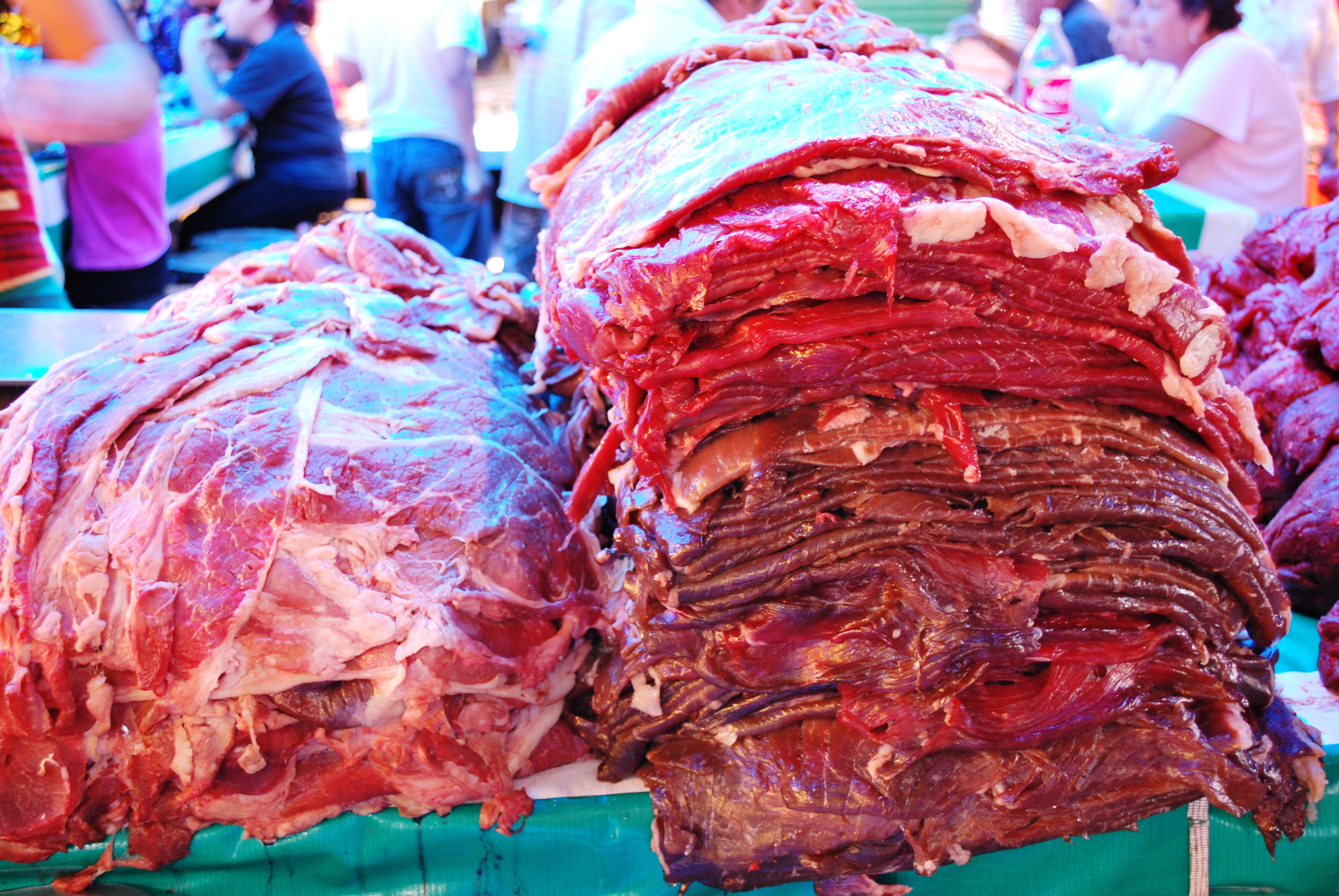 Sheets of beef "cecina" for sale at a tianguis market in Metepec, Mexico State